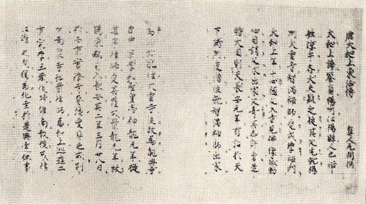 Tō Dai Wa Shō Tō Sei Den (唐大和上東征伝)